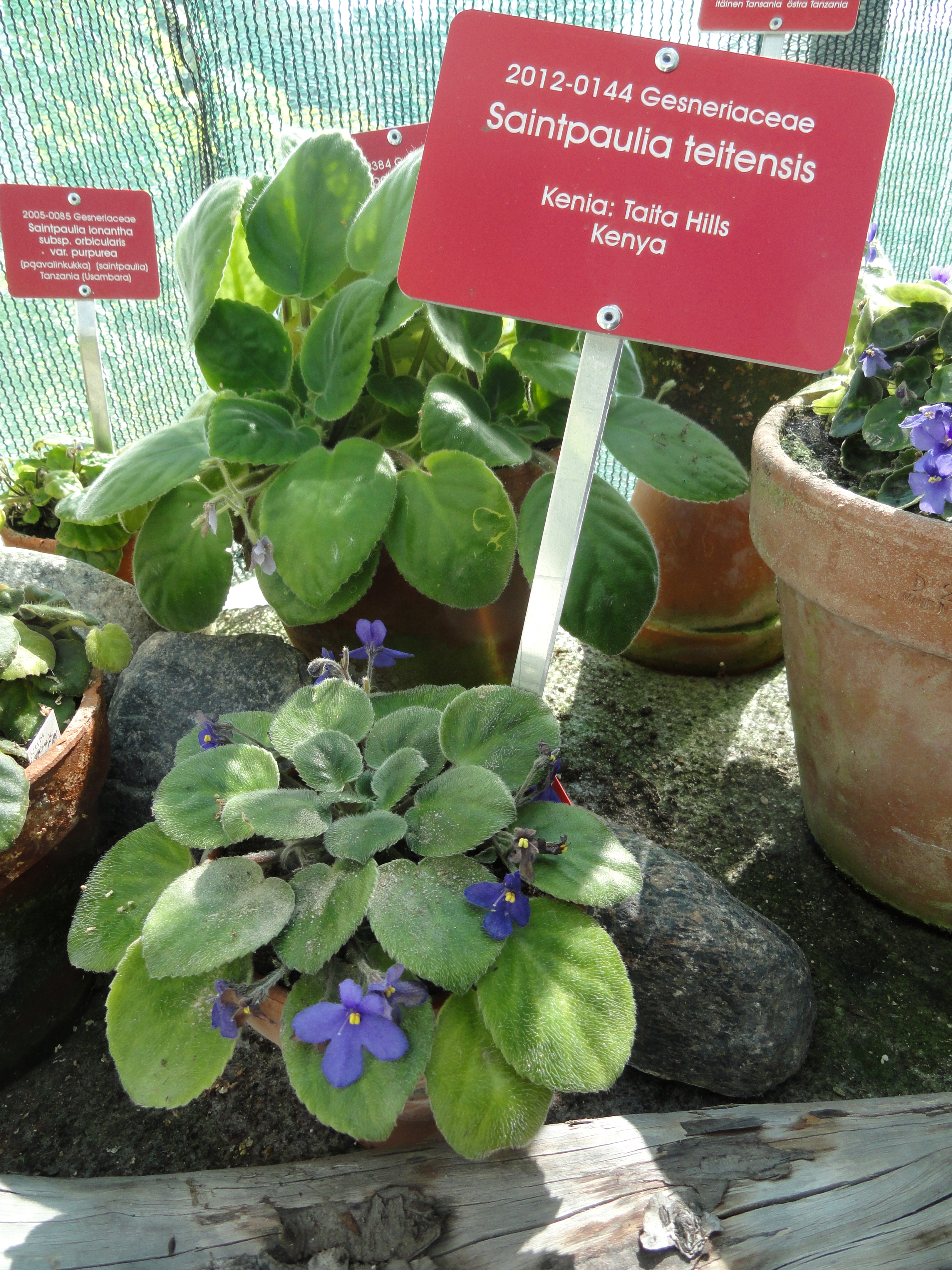 Botanical specimen. The University of Helsinki Botanical Garden at Kaisaniemi